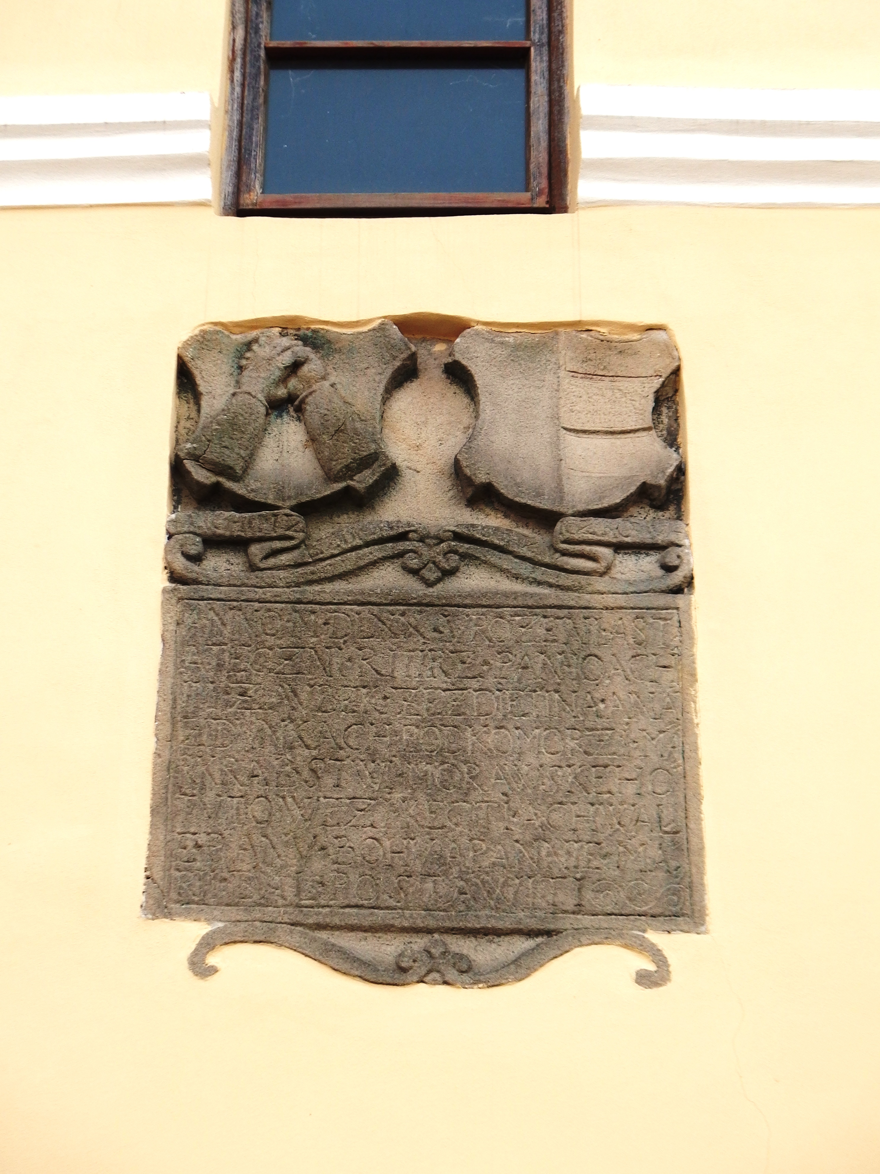 Zdounky, Kroměříž District, Czech Republic.